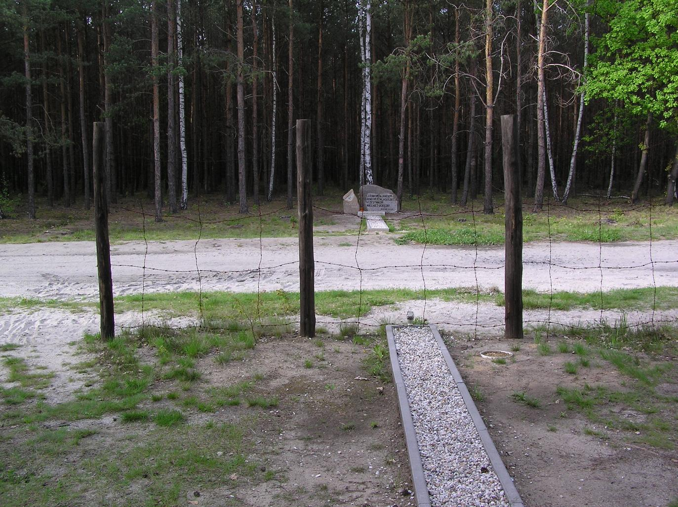 Stalag Luft III, Poland. Harry Tunnel. Scene of the "Great Escape" by allied POWs in March 1944.